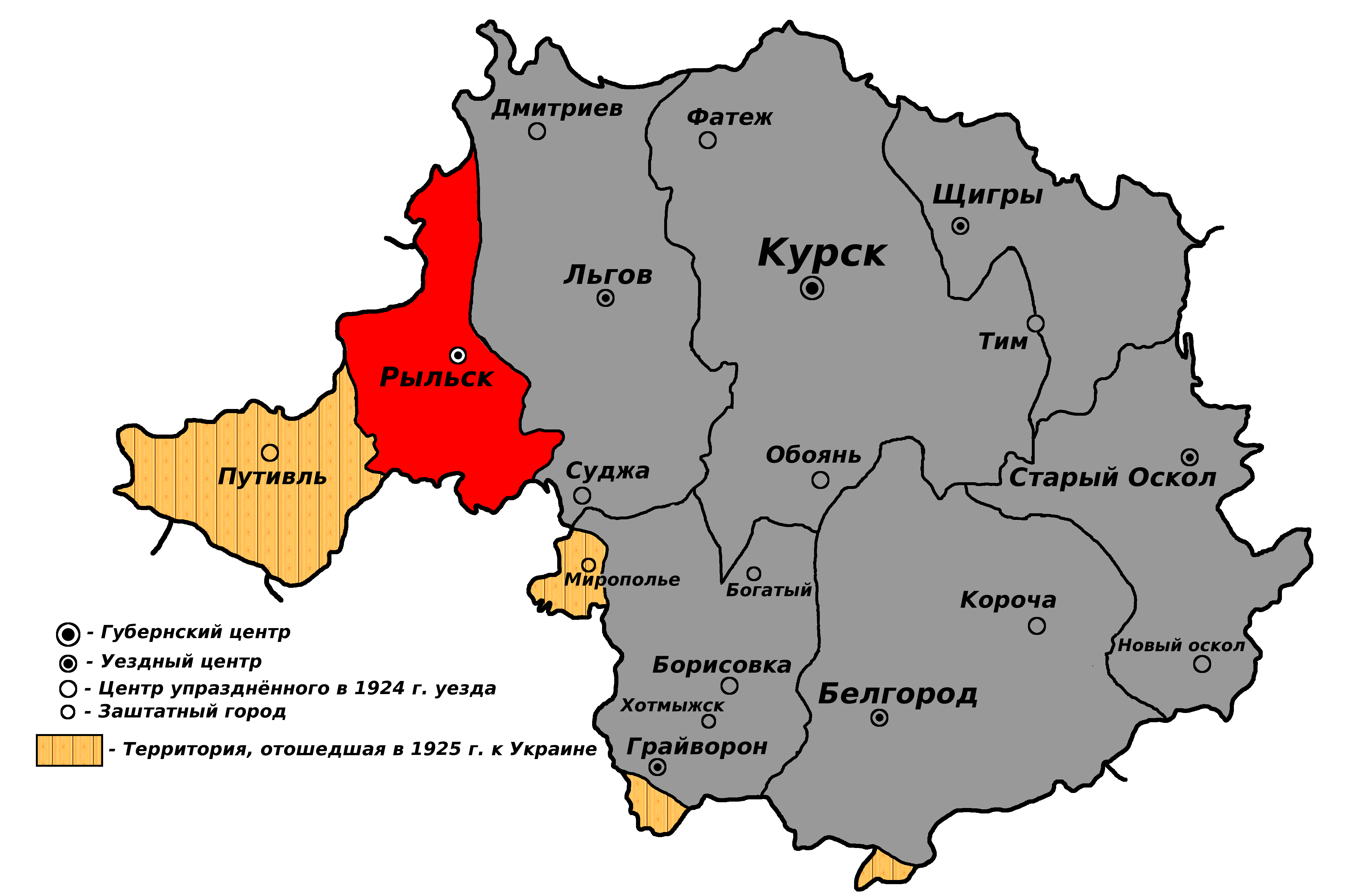 Kursk gubernia (RSFSR, 1924-1928), Rylsky_uyezd